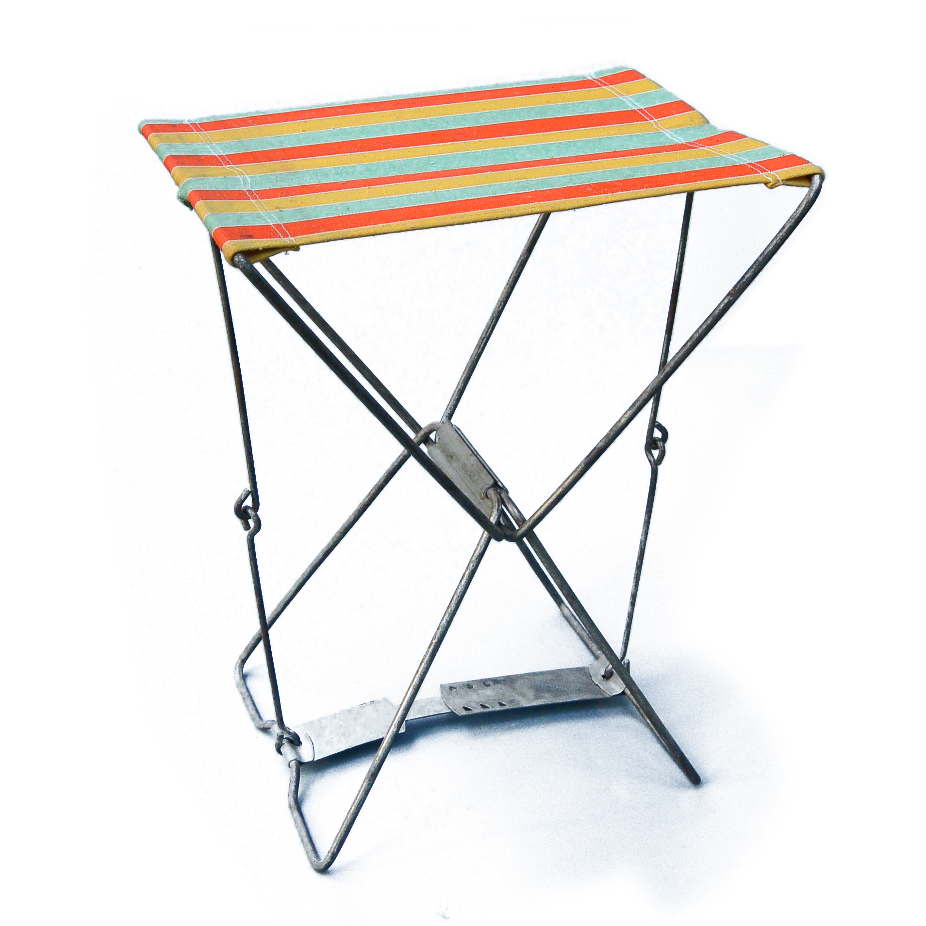 Folding stool from Eastern Germany